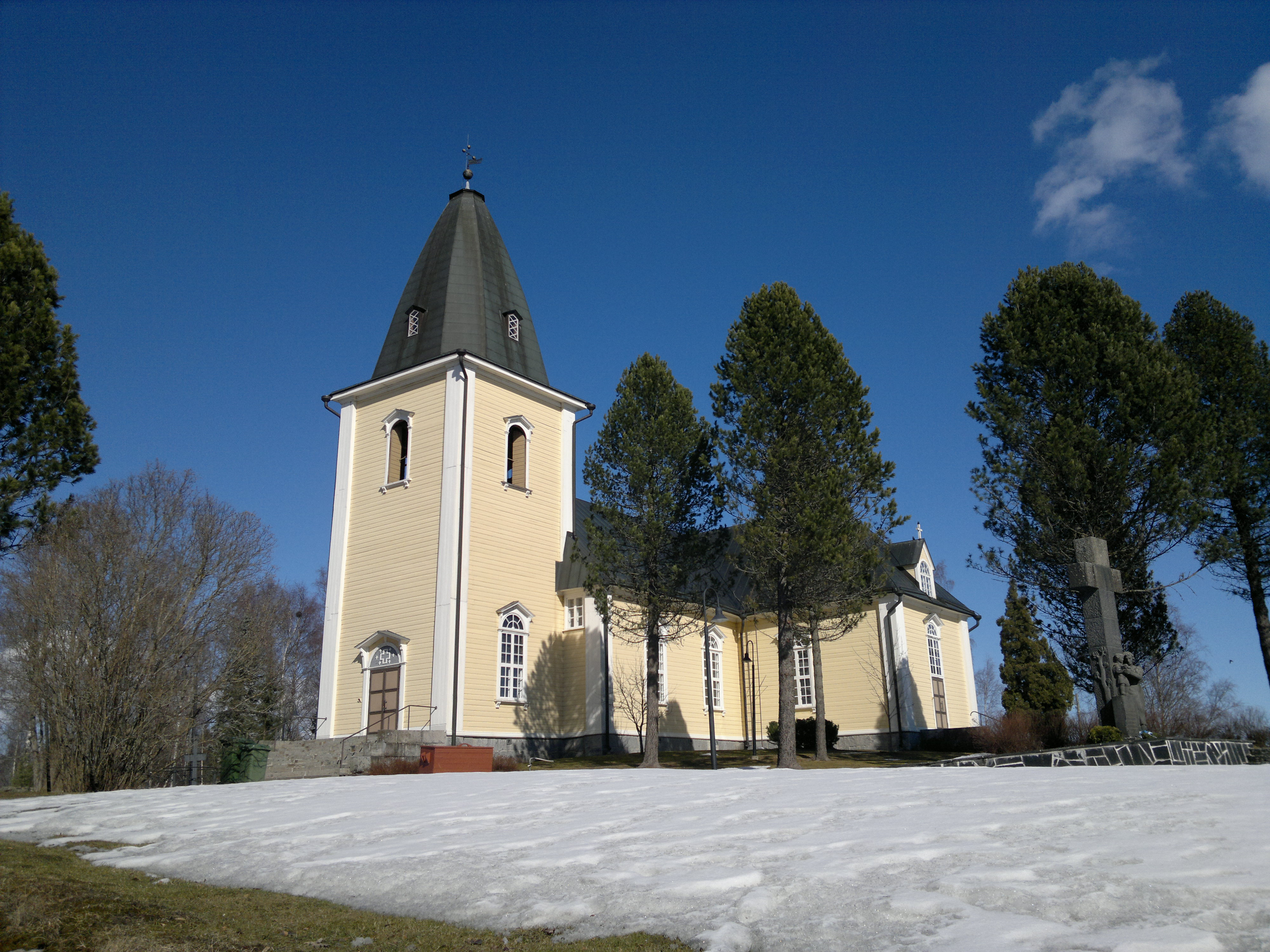 Hämeenkyrö church